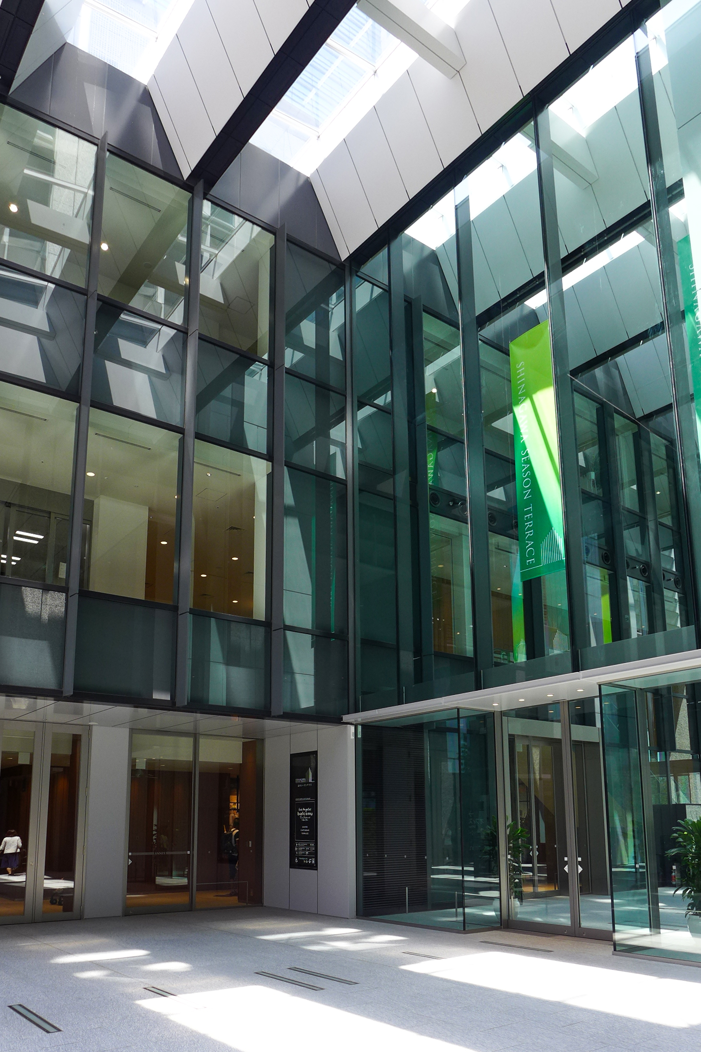 Shinagawa Season Terrace